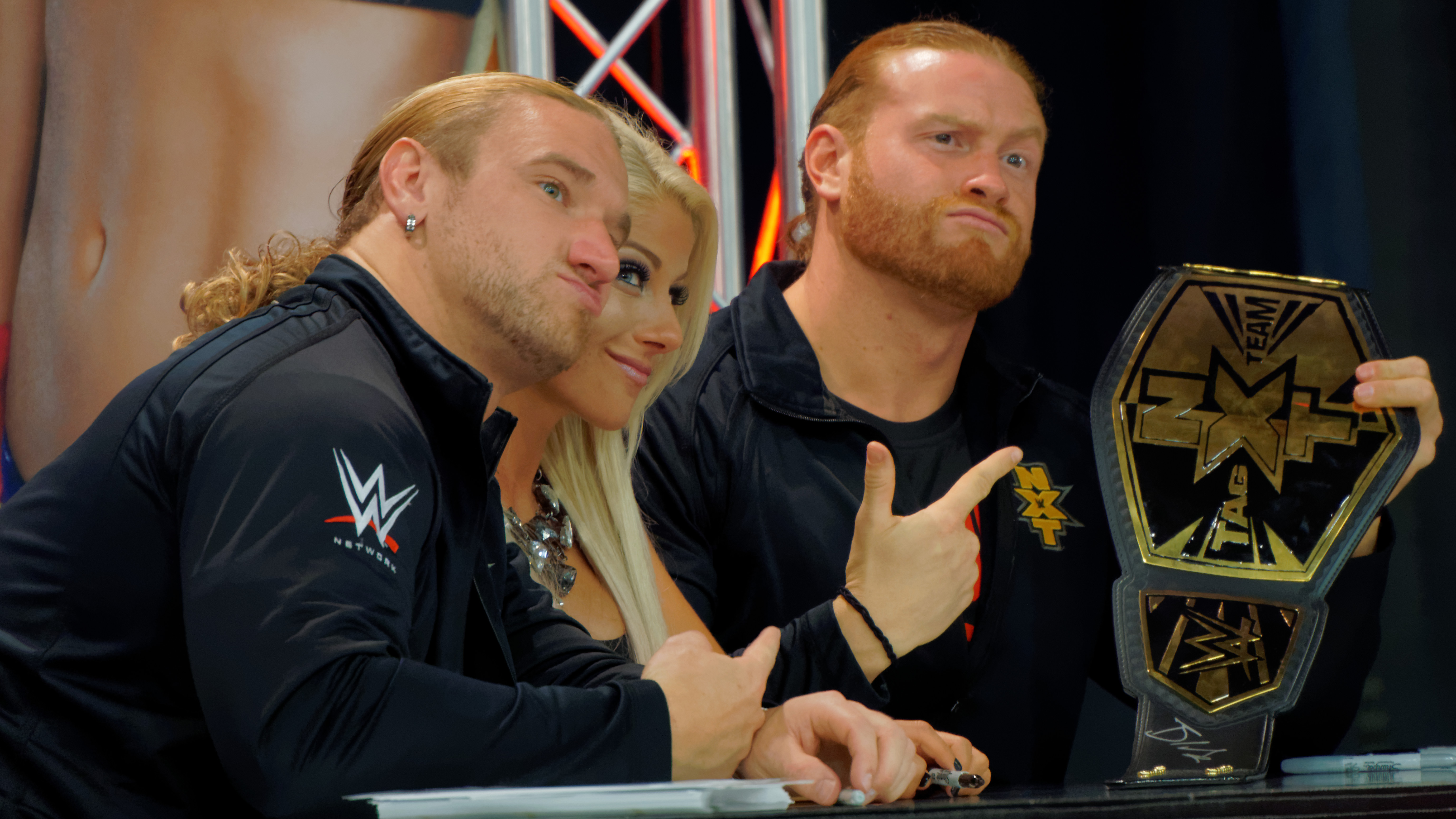 WrestleMania Axxess takes over the Kay Bailey Hutchison Convention Center in Dallas March 31-April 3. Featuring Superstar and Diva meet-and-greets, memorabilia displays and much more, WrestleMania Axxess is one event WWE fans of all ages will want to be part of. Don't miss out!